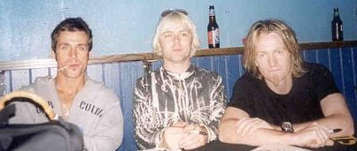 Raine Maida, Mike Turner and Duncan Coutts in June 2001.